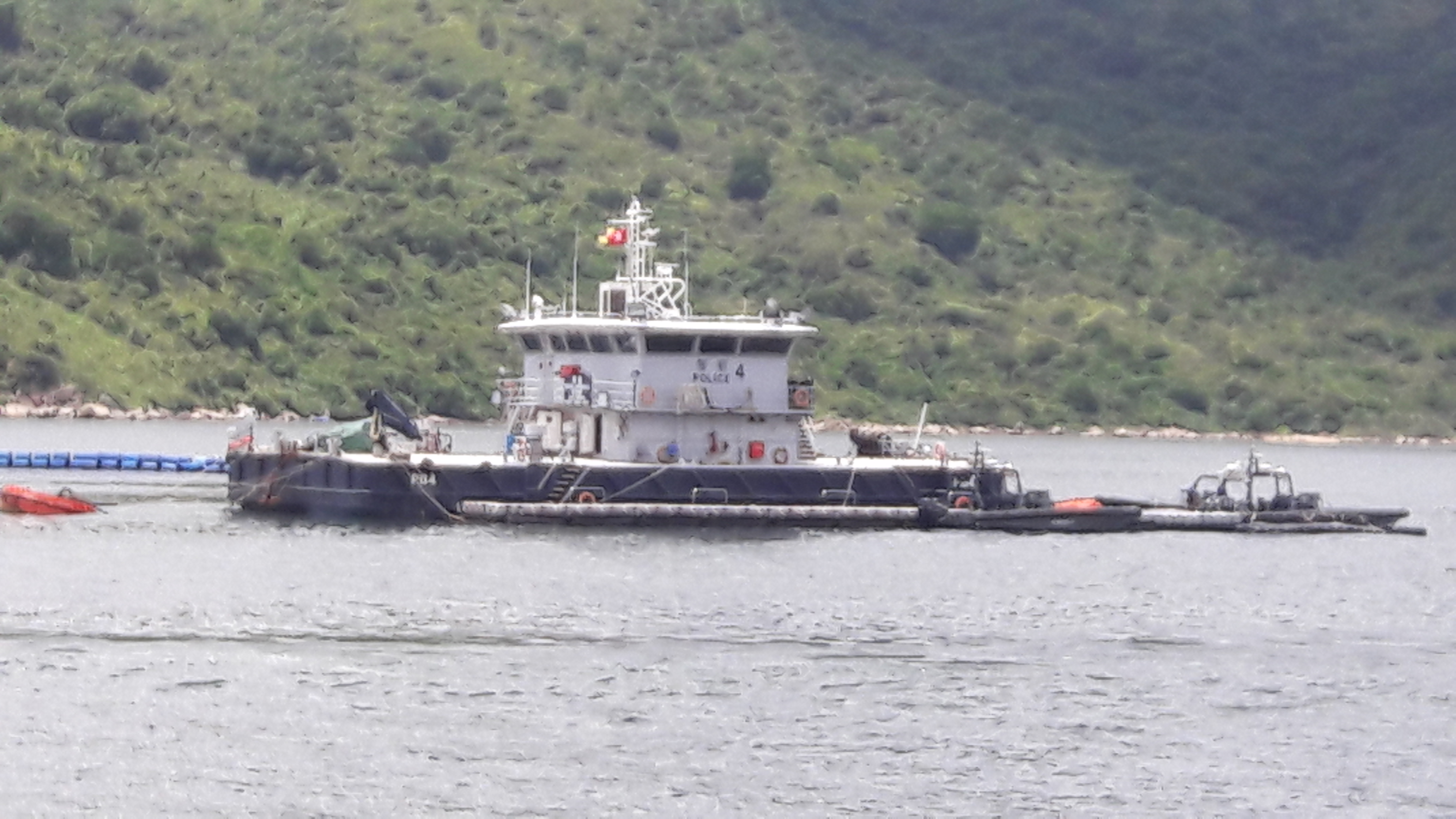 Marine Police Ship 4 中文（香港）: 4號水警輪